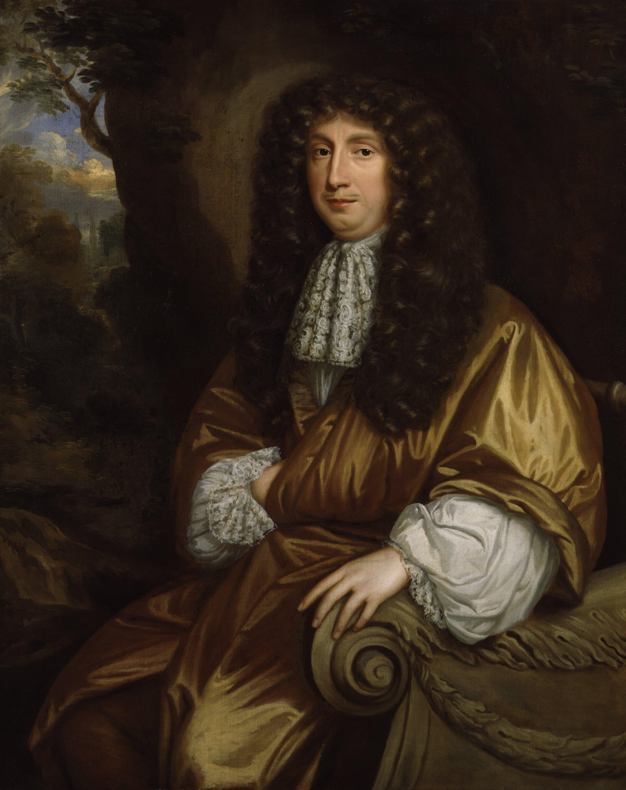 George Savile, 1st Marquess of Halifax (1633-1695)